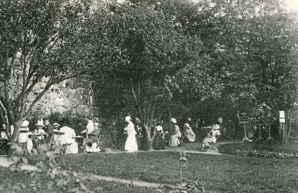 The castle terrace by the fortress in Varberg, Sweden.